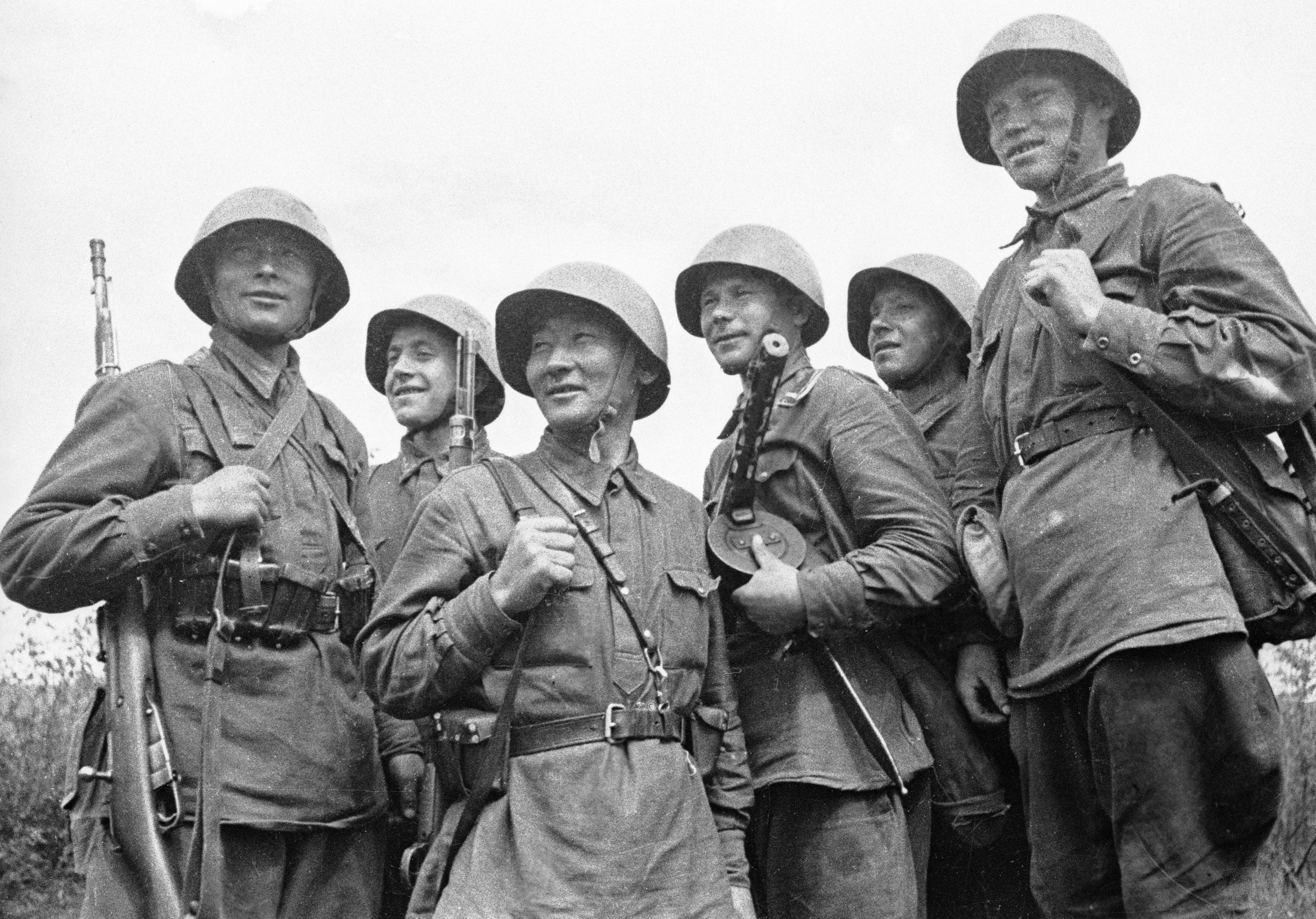 “Before the defense of Smolensk”. These soldiers will defend Smolensk.